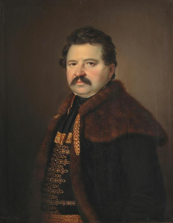 Gábor Döbrentei de Hőgyész (1785–1851), Hungarian poet, member of the Hungarian Academy of Sciences.